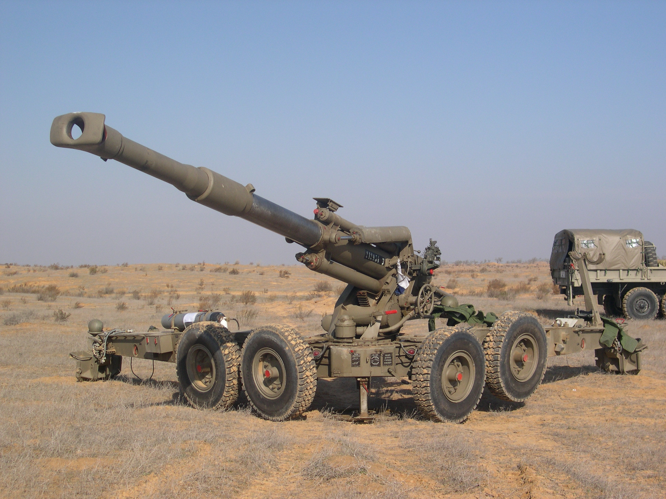 M-71-Soltam cannon deployed in IDF excercise